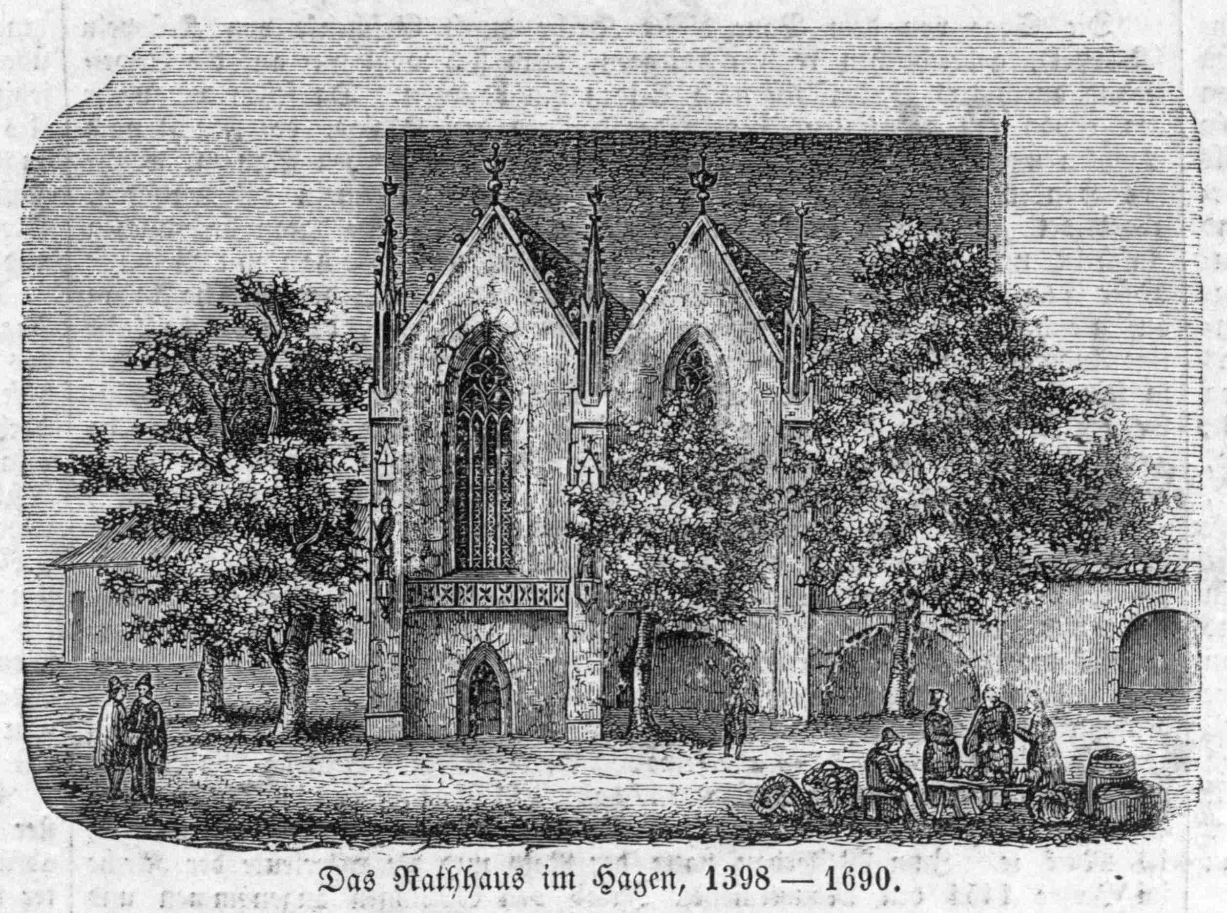 Braunschweig, Germany: Hagen Town Hall.